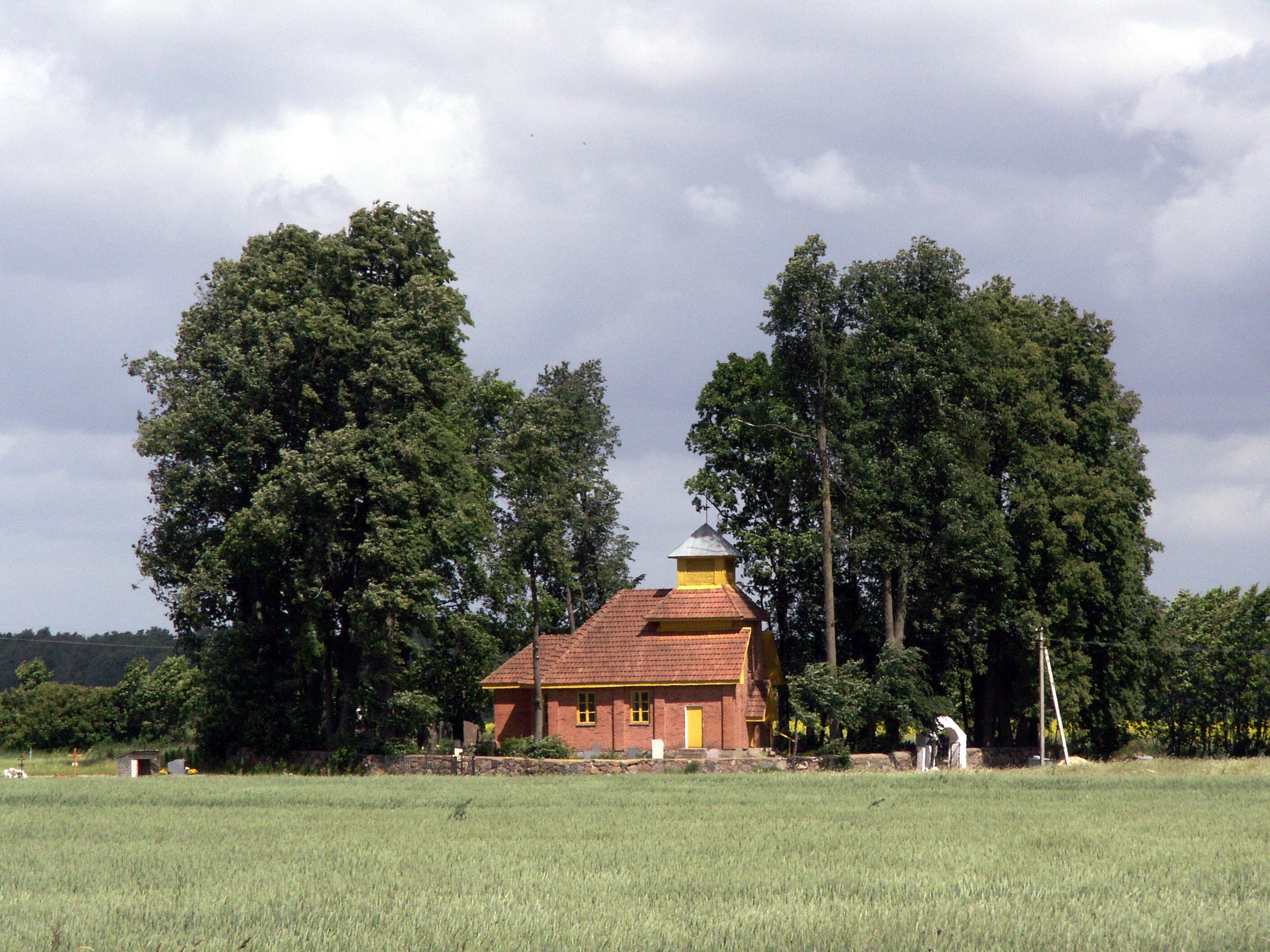 Norušaičiai, church, Šiauliai district